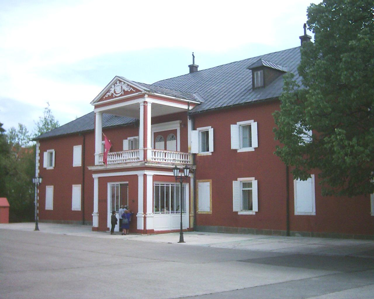 Montenegro kings and princes palace in Cetinje, main entry.